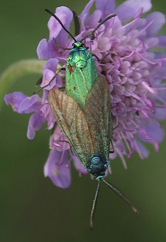 Cistus Forester (Adscita geryon) in copula